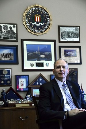 FBI Training Division Assistant Director Mark A. Morgan in his office at the FBI Academy in Quantico, Virginia on Monday, February 1, 2015.